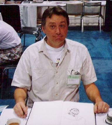 American comic book artist Rick Veitch at the 1992 San Diego Comic Book Expo.